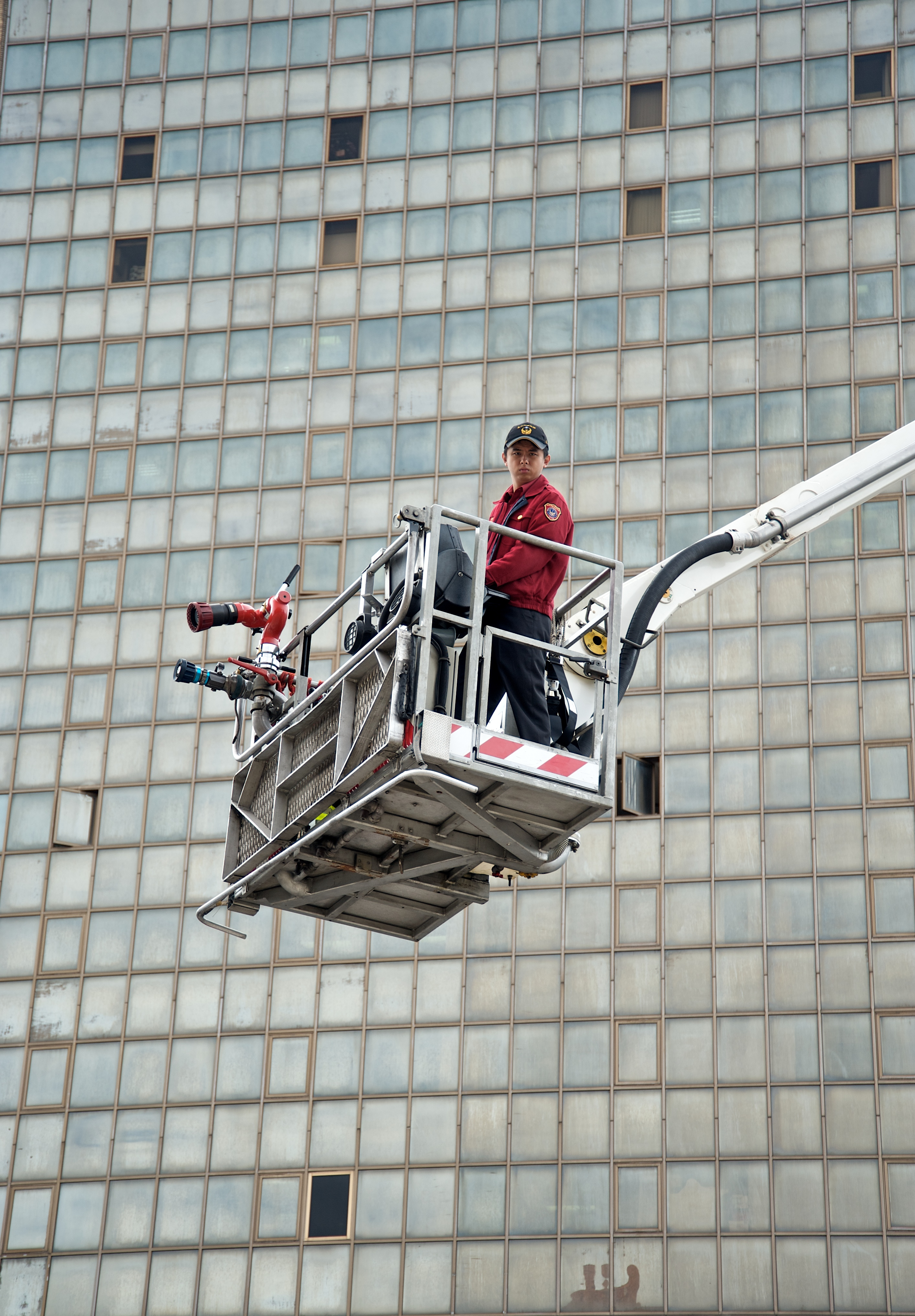 A firefighter of Taipei City Fire Department in a hydraulic platform during a fire drill.